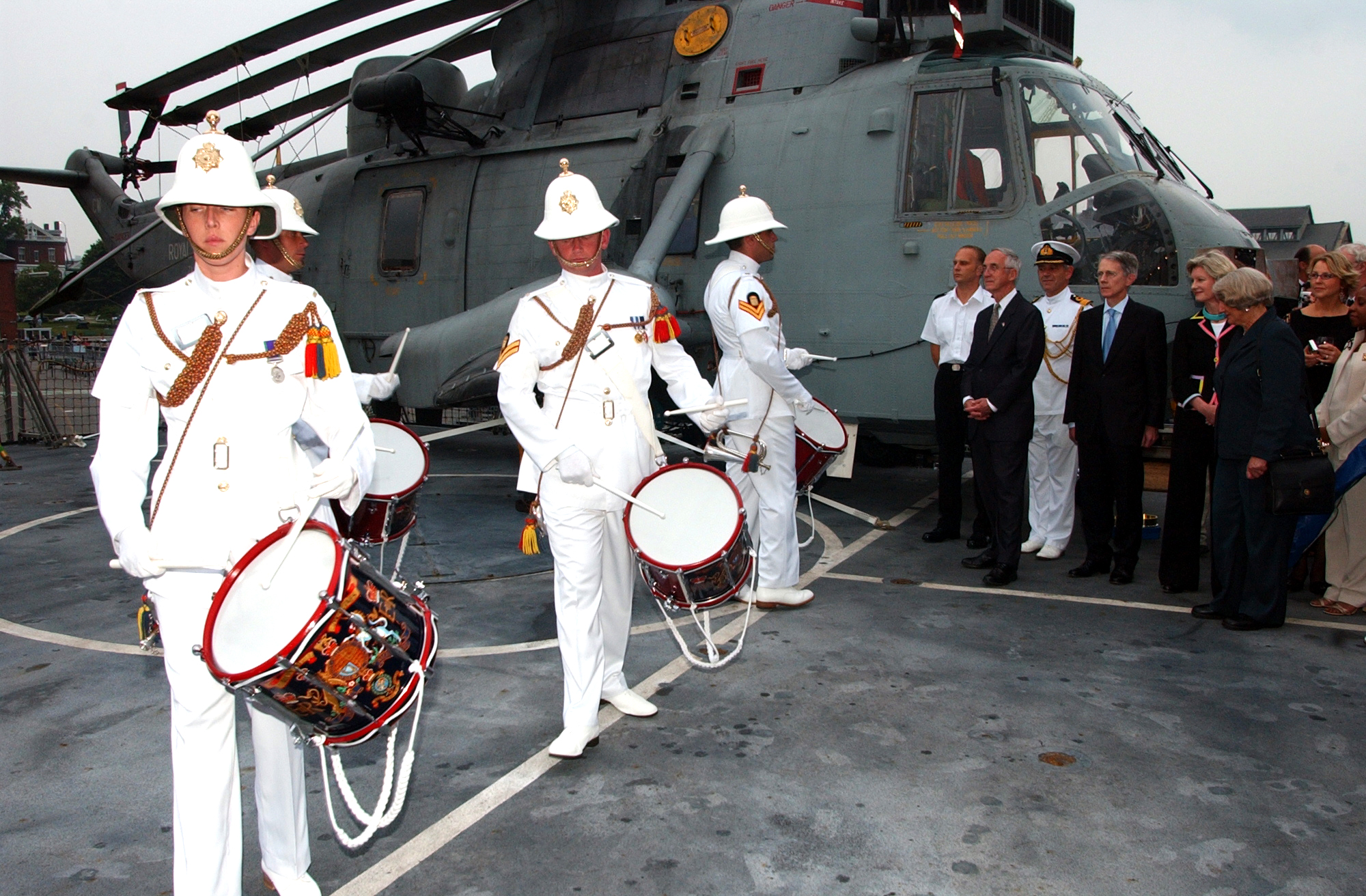 Boston, Mass. (June 25, 2004) - Secretary of the Navy, Gordon R. England and his wife, accompanied by British Ambassador, Sir David Manning and his wife, look on as the British frigate HMS Cornwall (F 99) crew, performs a traditional sunset flag-lowering ceremony. The Secretary and Ambassador also toured Constitution, Bunker Hill, and were honored guests at a reception held aboard HMS Cornwall. The Boston visit focused on the close tie between the U.S. and Royal Navies, which is a partnership that is a key element in the global war on terrorism. U.S. Navy photo by Chief Journalist Craig P. Strawser (RELEASED)